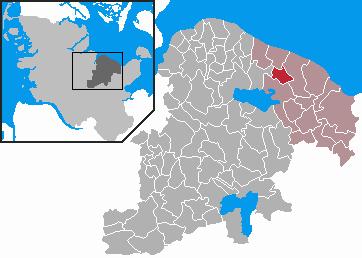 This map shows the area of the Gemeinde (municipality) Tröndel in the Kreis (district) Plön, Schleswig-Holstein, Germany.